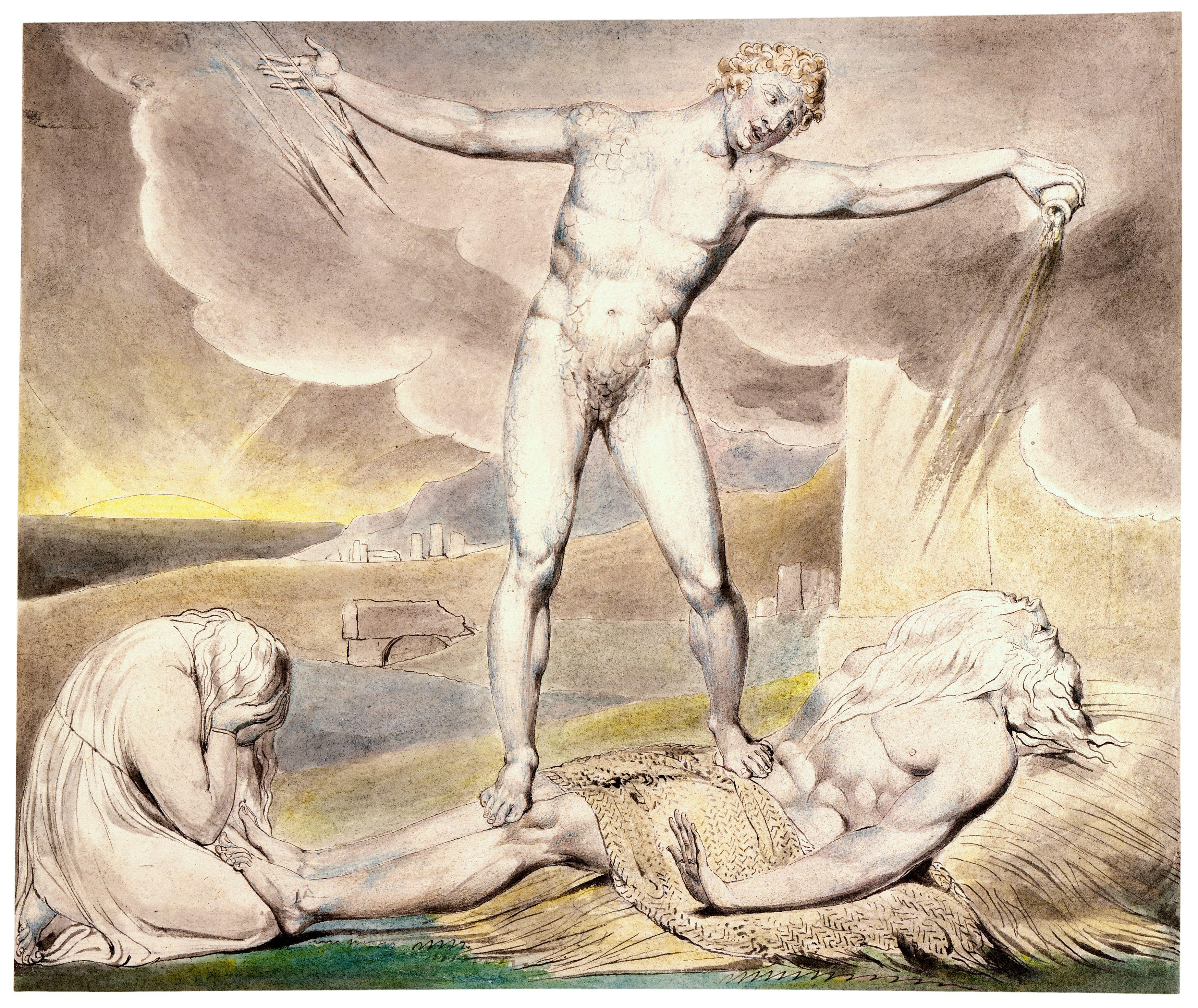 Satan Smiting Job with Boils, from the Butts set. Pen and black ink, gray wash, and watercolour, over traces of graphite